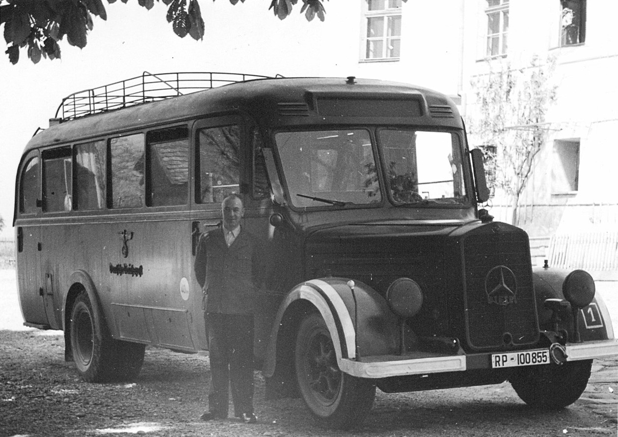 Hartheim Nazi killing center, bus with driver